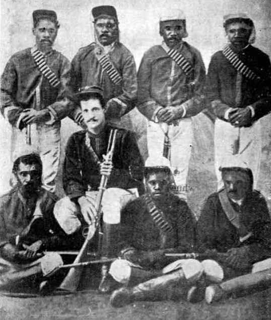 native police unit in 1870